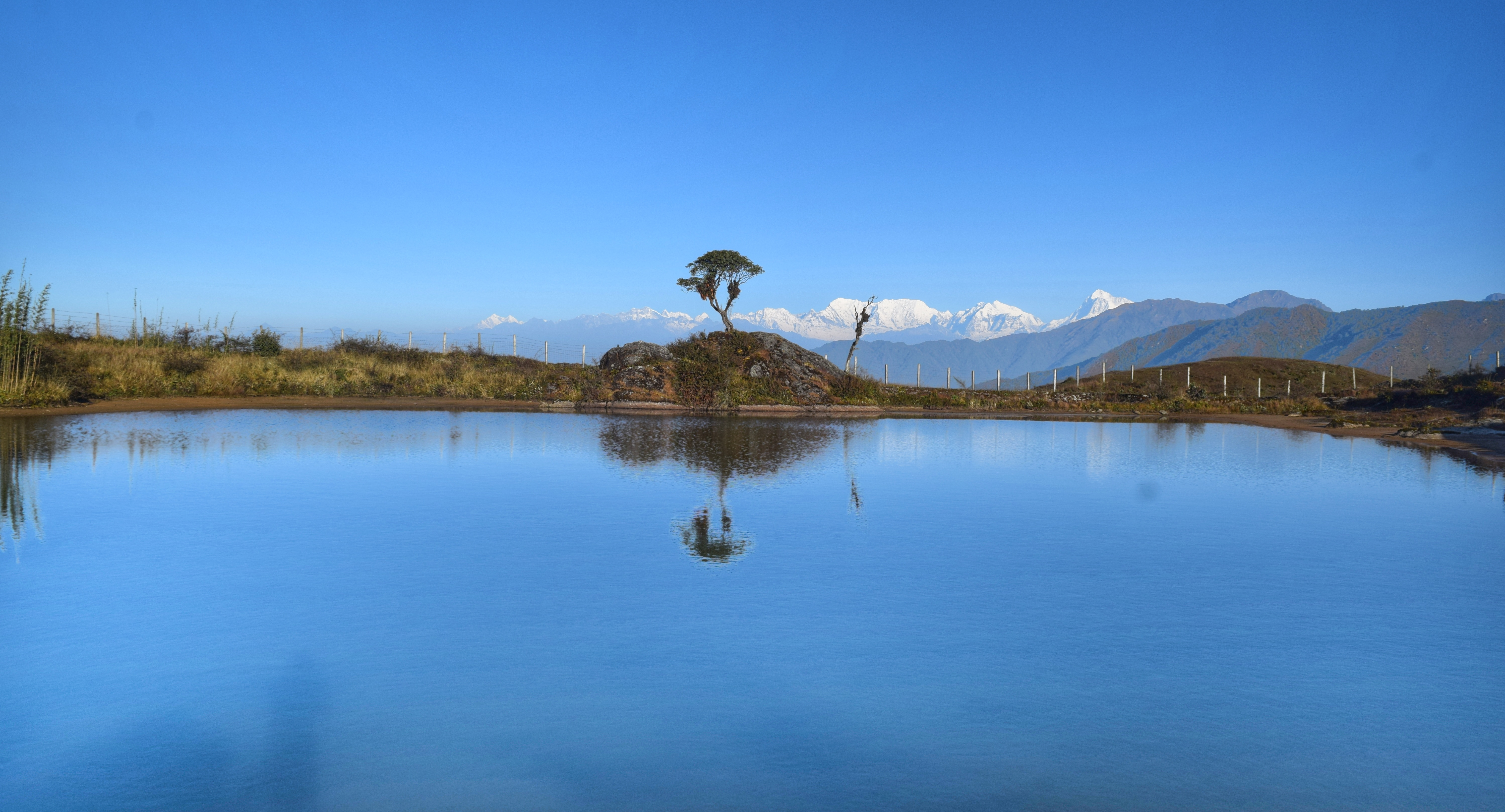 It is one of the popular ponds of the Eastern Nepal. Guphapokhari is located in Sankhuwsabha and is away from the crowd. It is a trekking spot from Basantapur but you can find buses too that will take you there.The place is famous for 26 different types of Rhododendron that bloom together at the end of Chaitra. You can find little lodges to live in. They sell the pure Ghee prepared from Yak's milk, and a delicious milk product call Chhurpi, which people take to their homes as souvenir.